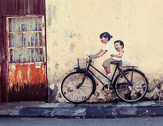 Penang street wall painting at Armenian Street. Drawn by Ernest Zacharevic